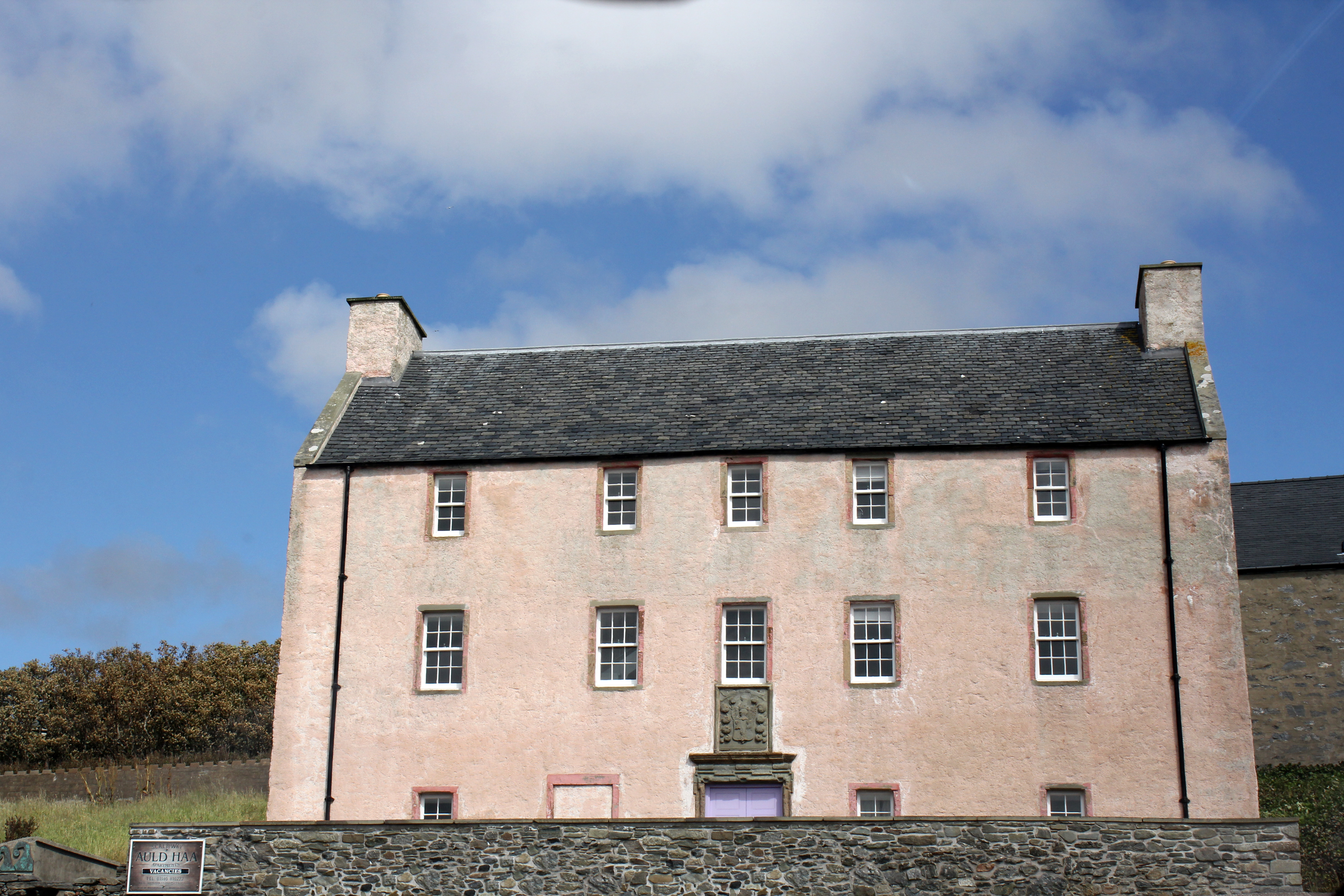 Old Haa, New Street, Scalloway